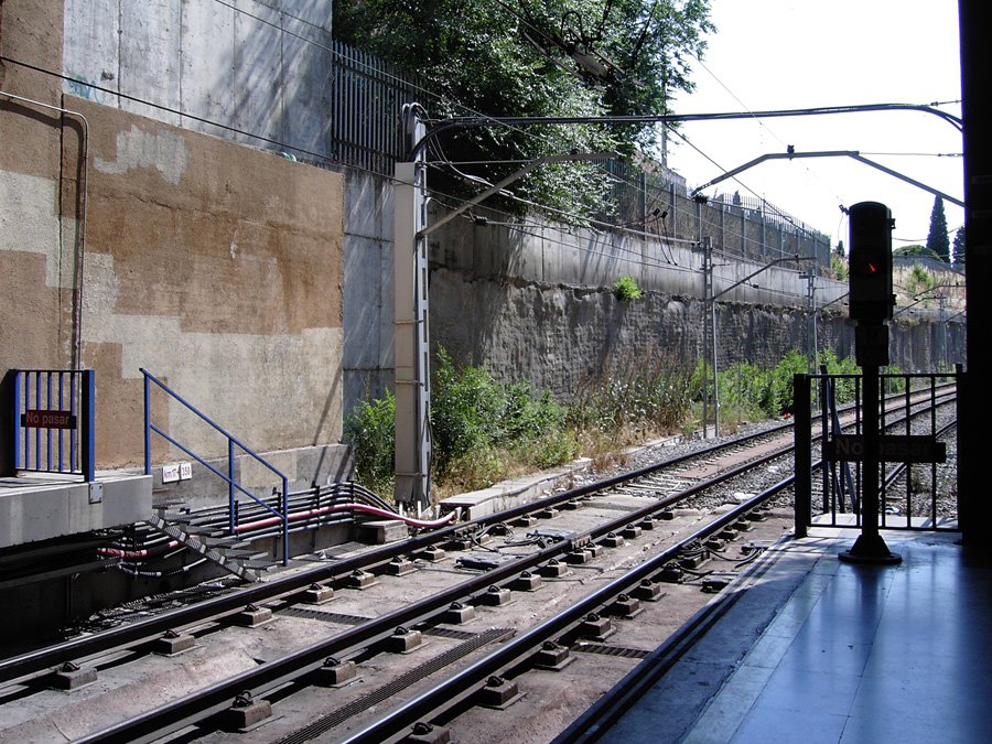 Overground track of Madrid's metro close "Eugenia de Montijo" station